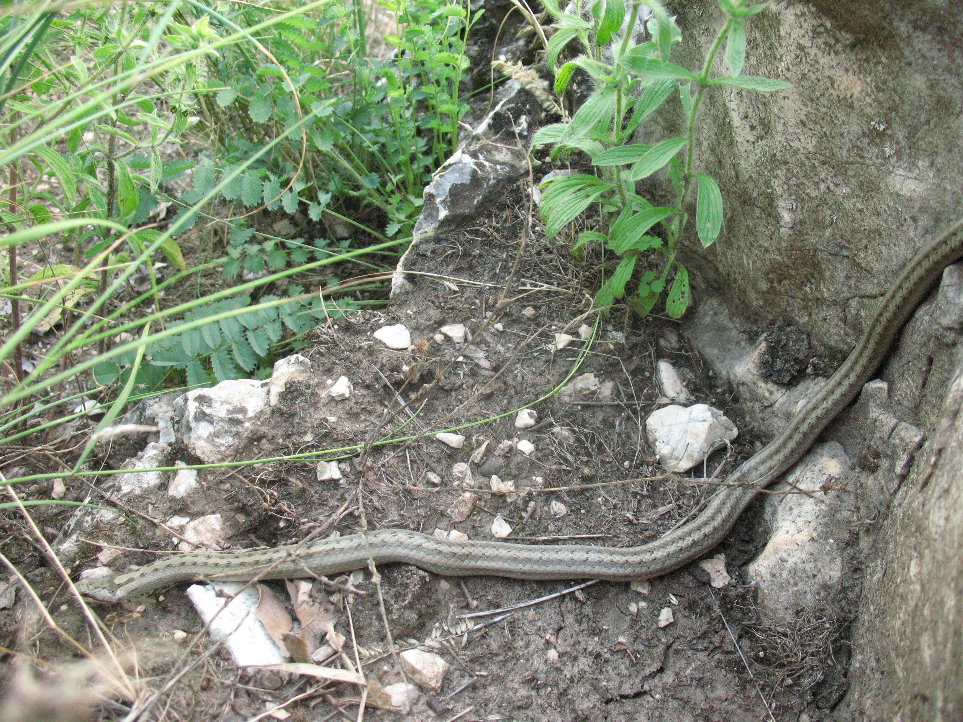 Coronella austriaca in Hungary